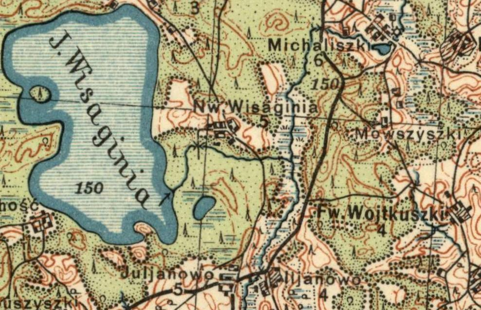 The area around Wisaginia (Vyseginas) on an old military map.